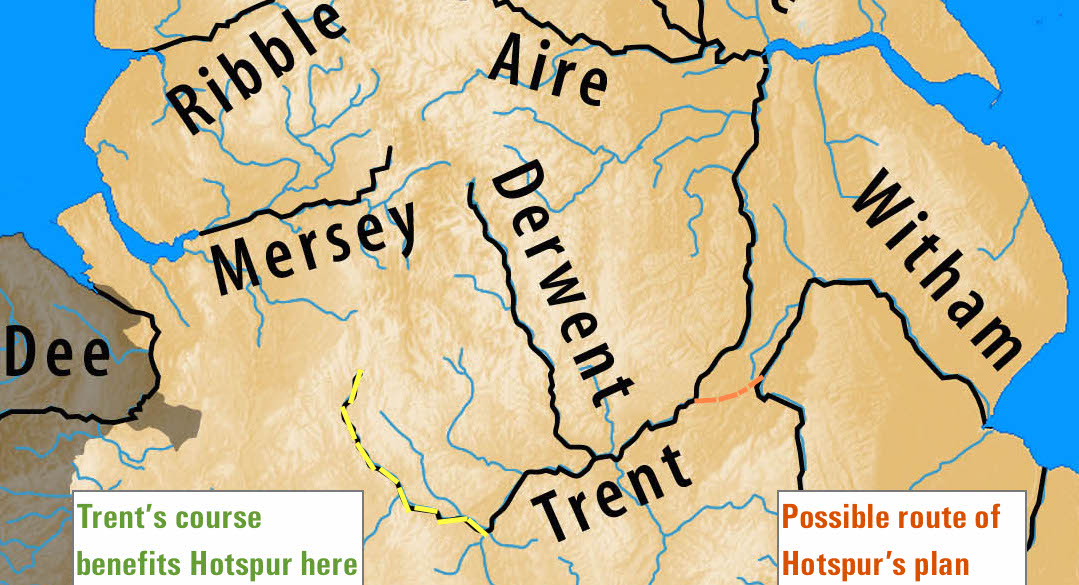 In Henry IV Part 1, Hotspur has been promised England north of the River Trent on the success of his rebellion. To the irritation of his partners, he proposes extending this still further by diverting the river. Presumably he wants to cut out the Trent’s final bend north towards the sea at the Humber, giving him a large additional area of land, I think all or most in Lincolnshire. This map shows how this could have been done, diverting the Trent into the nearby River Witham across the very low interfleuve between them. (A more southerly diversion direct to the Wash would give Hotspur still more land, but as the map shows this would require a much longer new channel.) Mortimer is unimpressed, and points out that the Trent’s upper course in the west (shown in yellow) already benefits him since it flows southwards there. The purpose of the discussion in the play may be to highlight the chaotic, selfish nature of Hotspur’s plans for England: he intends to reshape his country to fit better with the promises the other rebels owe him, even at his partners’ own expense. The Witham was indeed the lower course of the Trent before or during the Ice Ages (as once was a dry valley still further south, near Ancaster), but Shakespeare could not have known about this. A canal across the narrow barrier exists, on a slightly more northerly route to that shown here. This image is adapted from the design ‘Major Rivers of England’. It is an approximate map, and should not be relied upon as part of your plans to overthrow the sovereign.